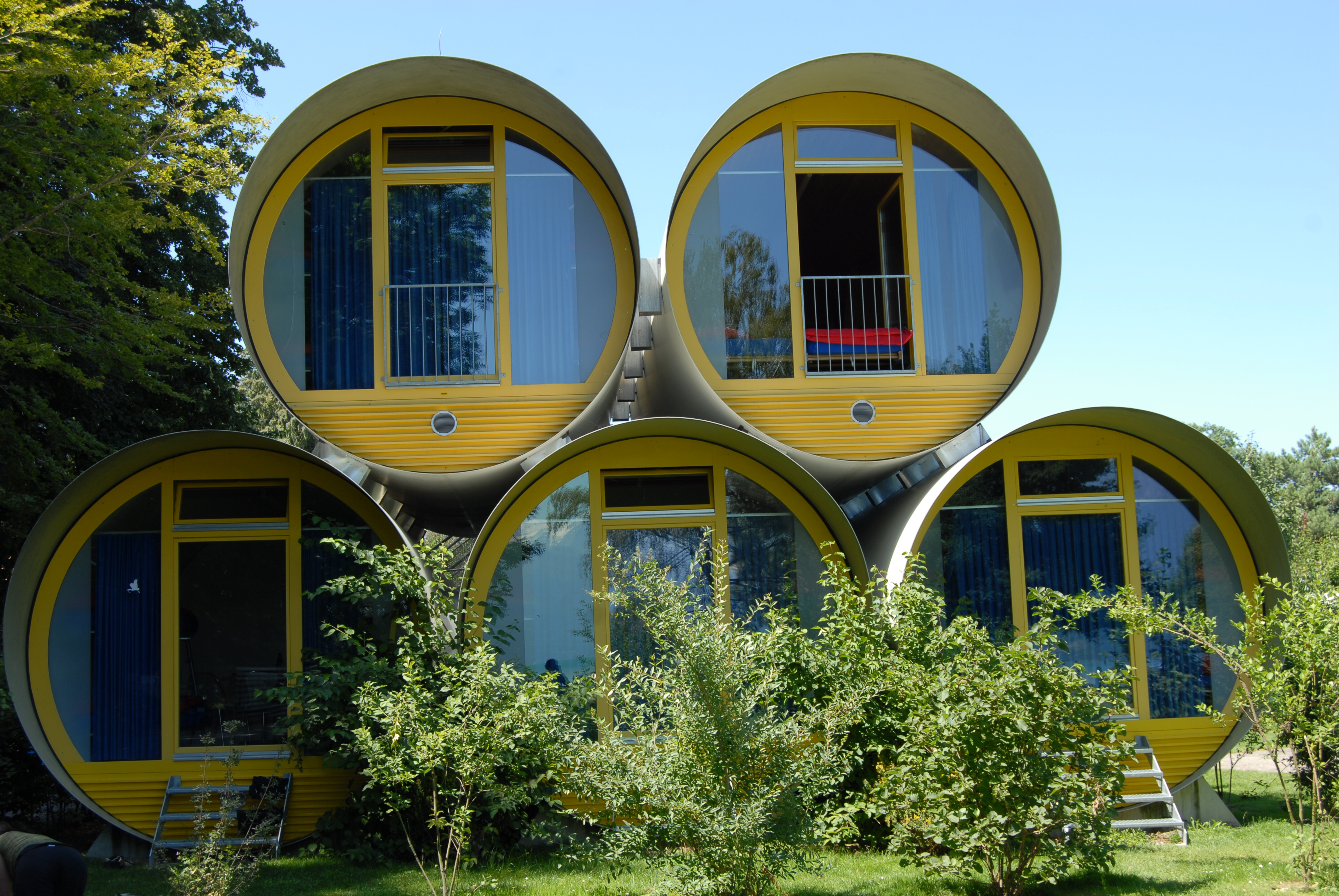 TCS Thunersee campsite in Thun-Gwatt